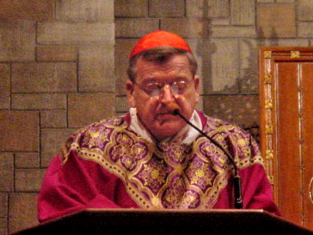 Picture of Raymond Card. Burke at a Mass at St. Clement's Eucharistic Shrine in Boston, MA, USA